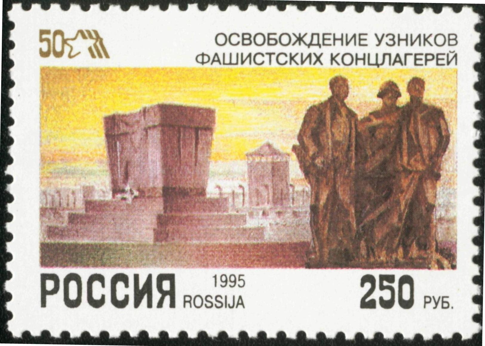 Stamp of Russia. 50th anniversary of the Victory in the Great Patriotic War. Liberation of prisoners of nazi concentration camps. 1995, 250 rubles, CPA #20?